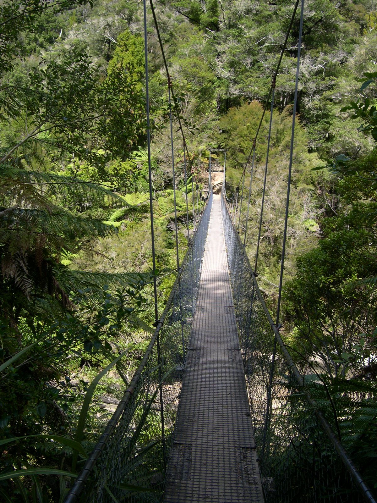 swing bridge Abel Tasman National Park, Coast Track